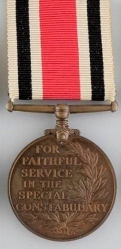 British medal for long service in the part time police, reverse